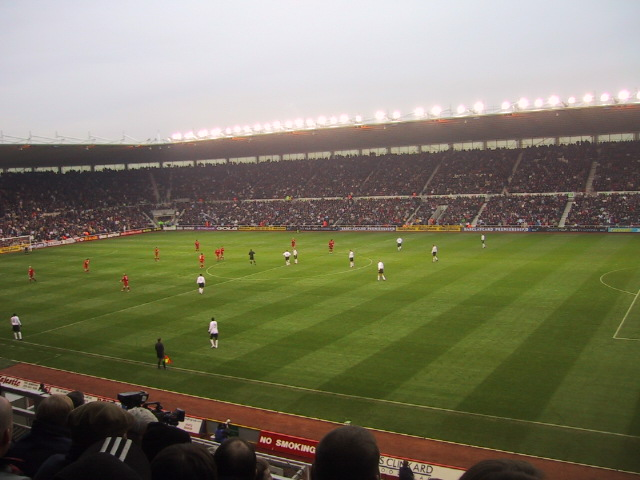 Riverside Stadium, Middlesbrough. The players line up for Middlesbrough V Liverpool, 22/11/03. The score isn't important.